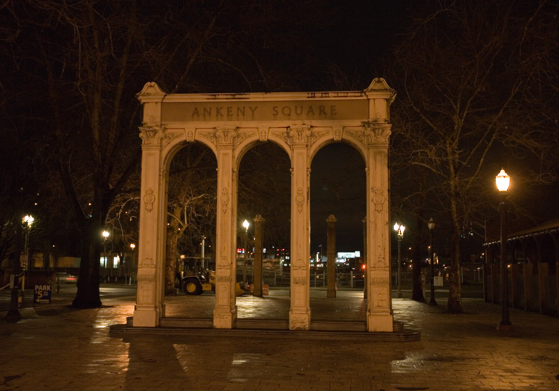 Ankney Square at night.